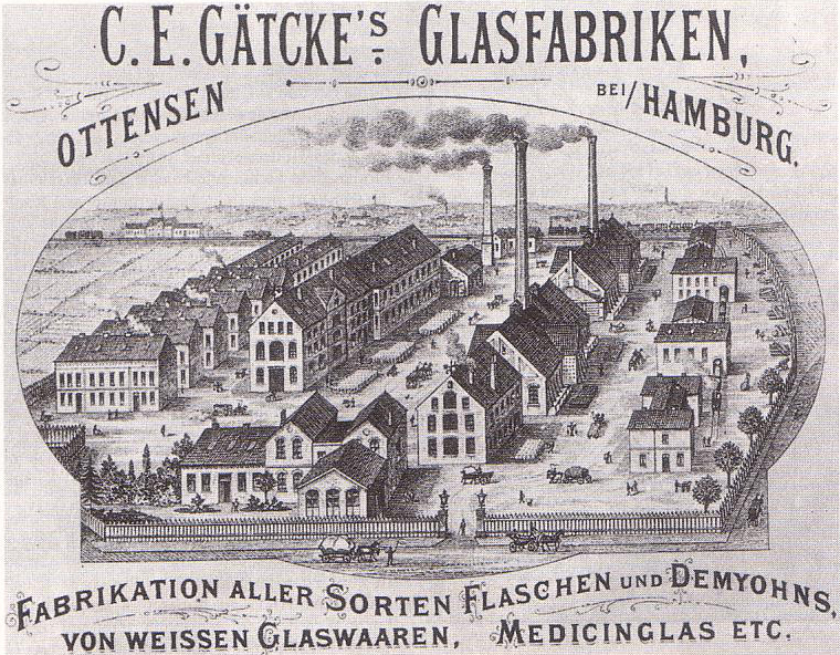 glas factory C.E.Gaetckes in Ottensen next to Altona/Elbe (Germany) //C.E.Gaetckes Glasfabriken in Ottensen bei Altona/Elbe